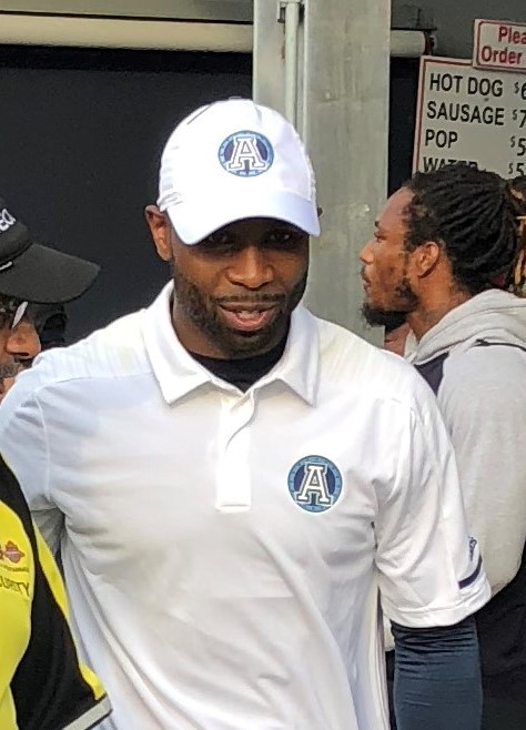 Tyron Brackenridge, Defensive Backs Coach for the Toronto Argonauts.